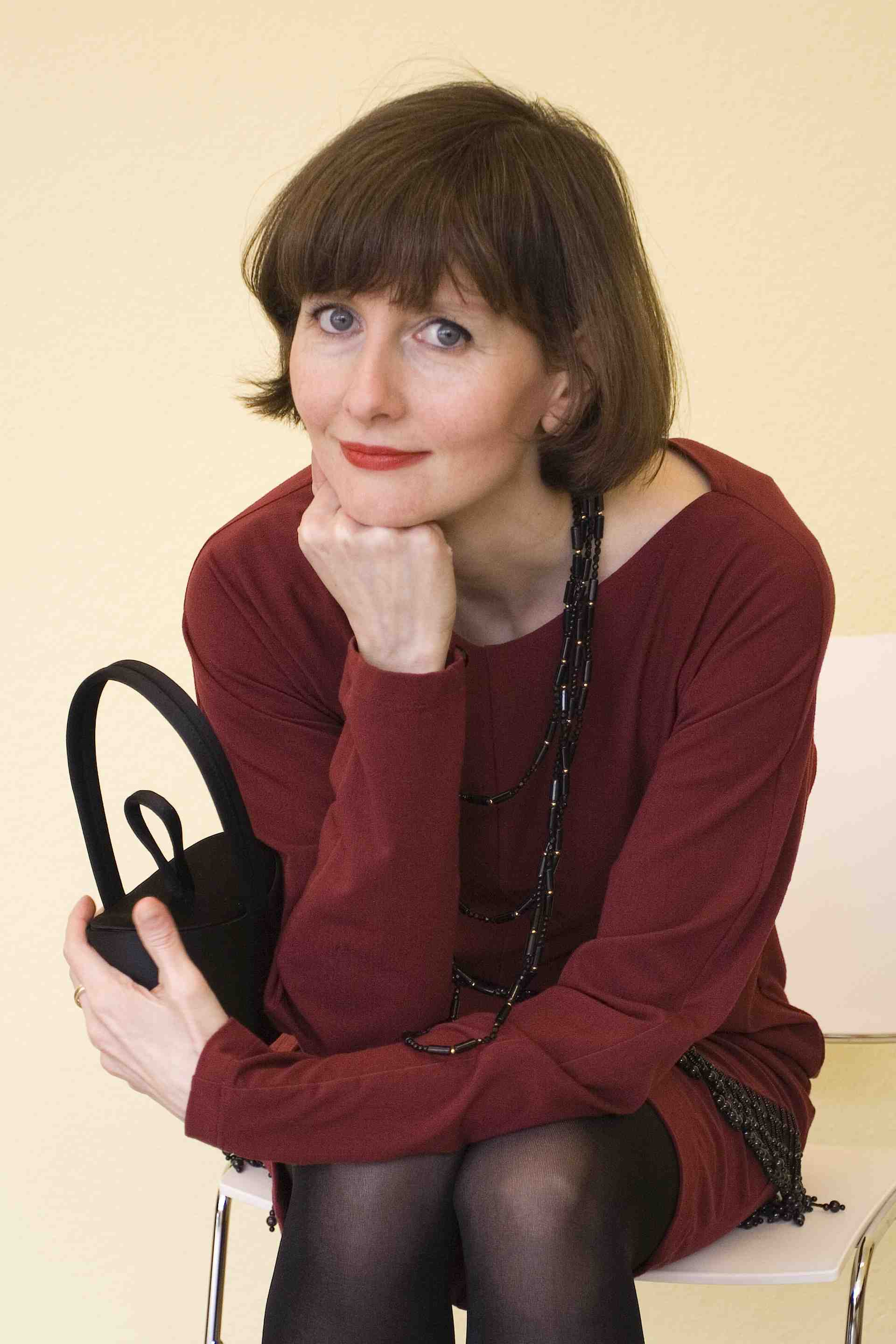 Photo of Christin Zacher sitting.